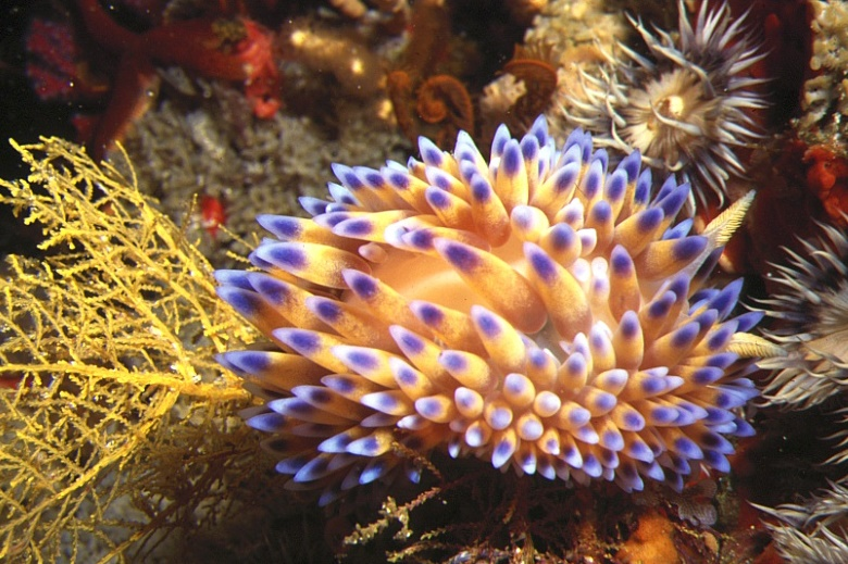 Gasflame nudibranch (Bonisa nakaza) in a Kelp bed on the Cape Peninsula, South Africa